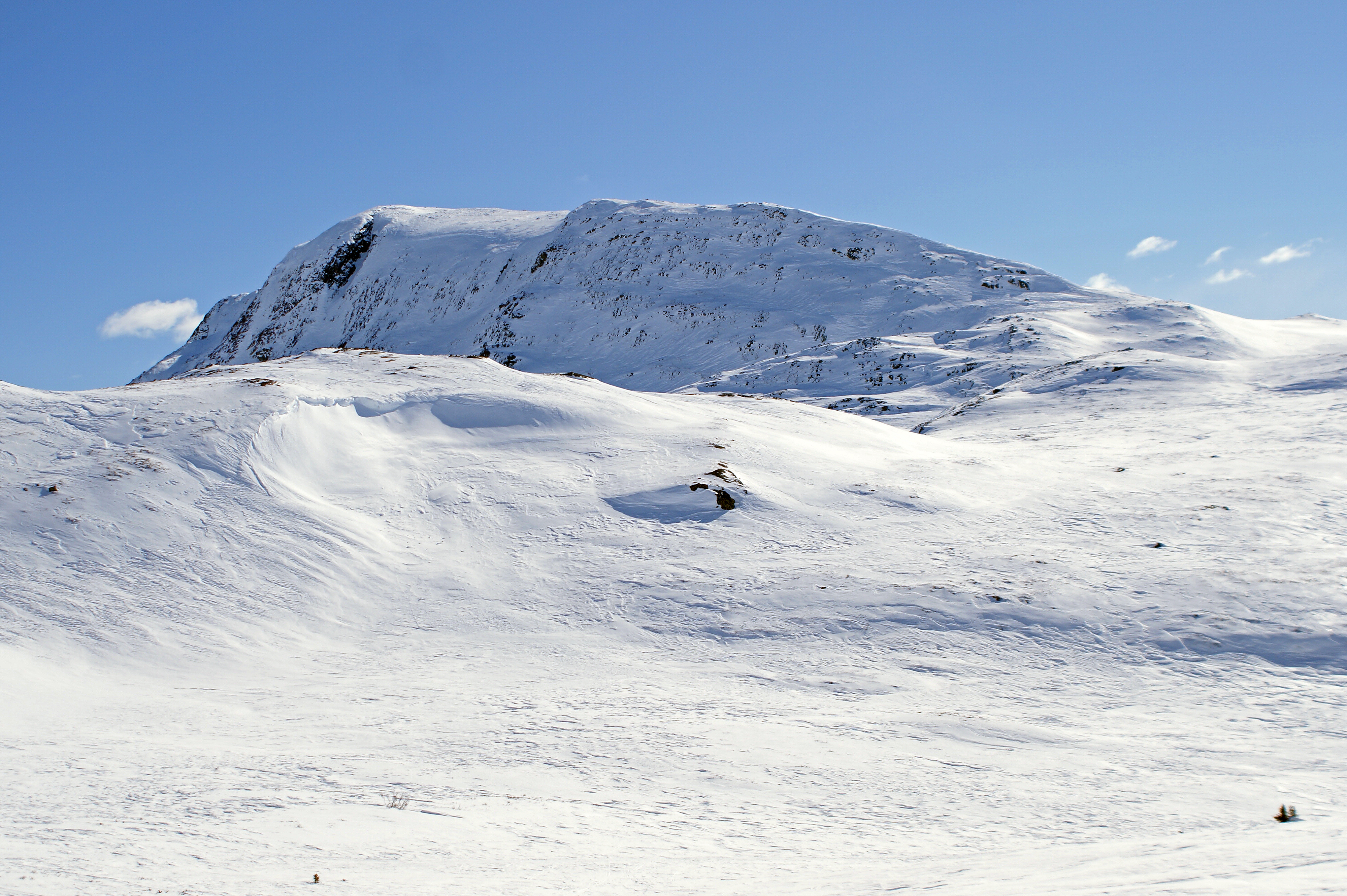 From our Easter holidays in Telemark. Brattefjell is the highest top in Seljord, 1540 m.